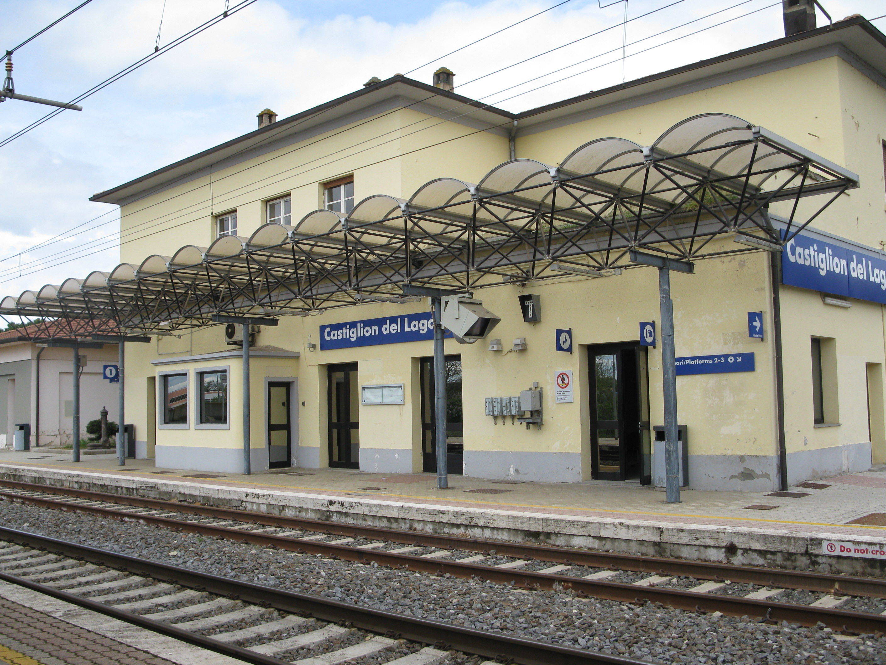 Castiglion del Lago railway station, station building.